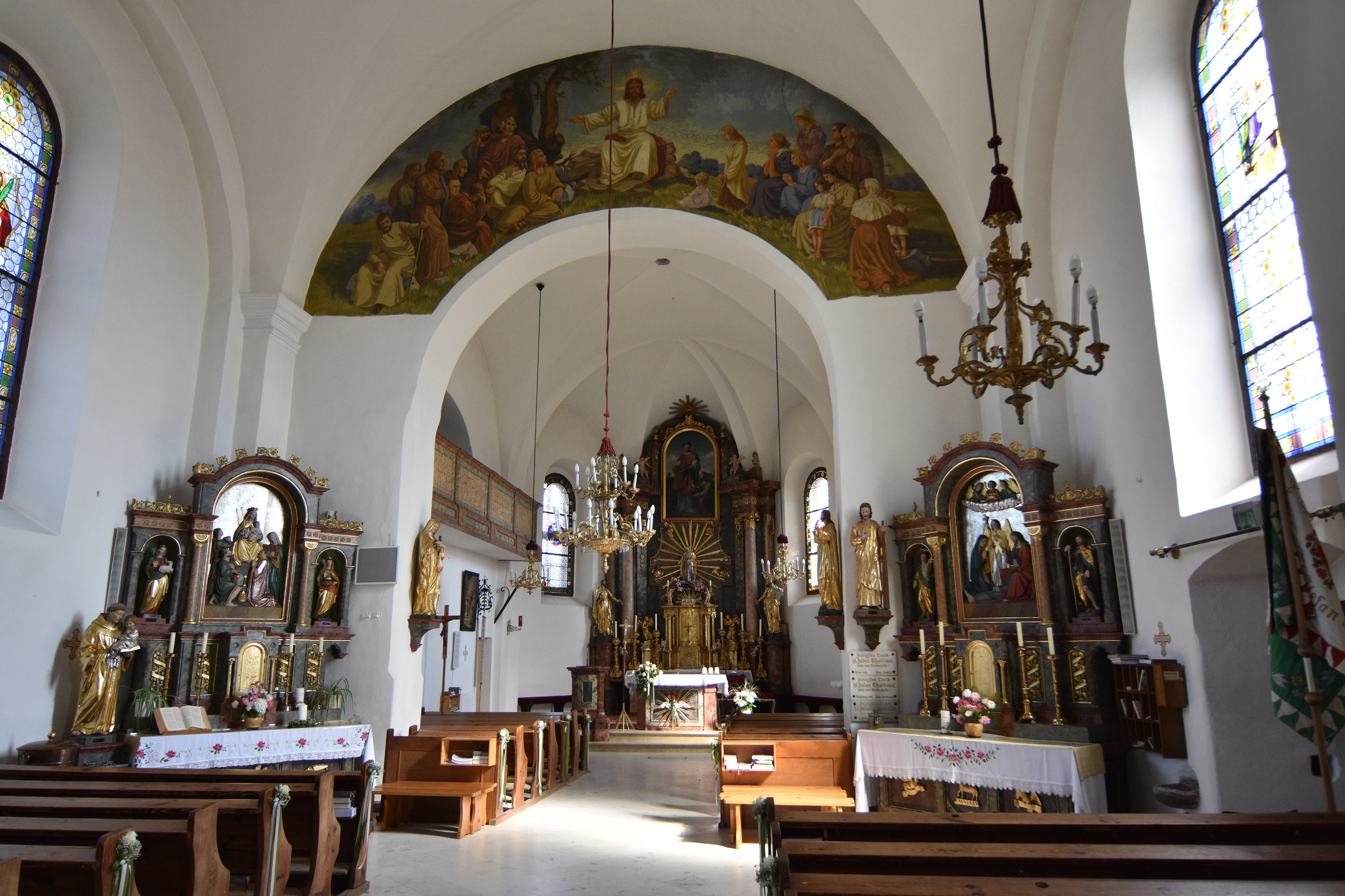 Church Kath. Pfarrkirche hl. Stefan Sankt Stefan im Rosental Interior